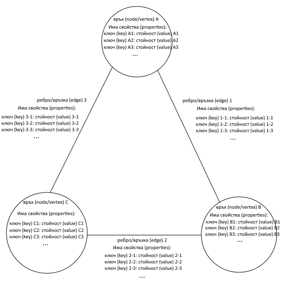 A simple diagram that lists basic terms in graph theory as used in a graph database such as Neo4j.